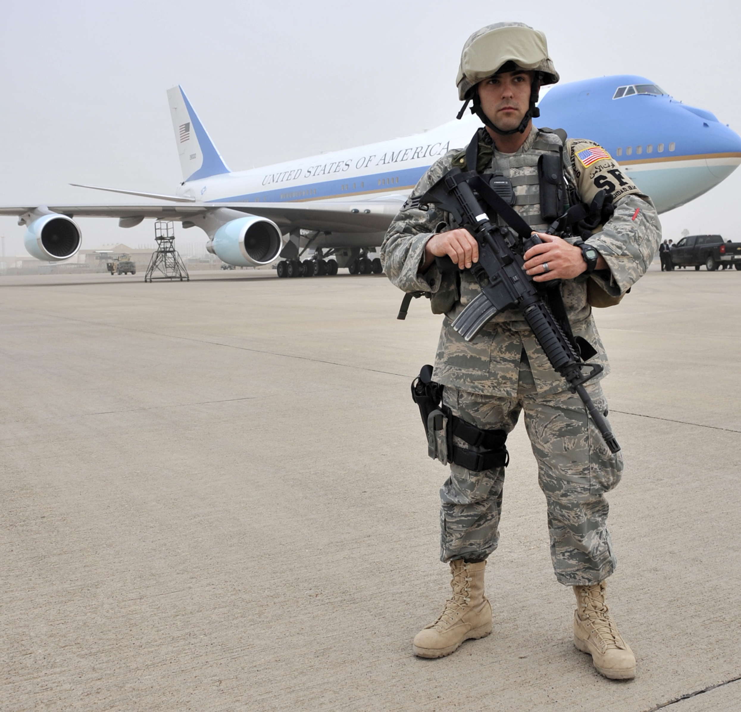 Senior Airman Smith guards Air Force One on the flightline April 7 at Sather Air Base, Iraq. President Barack Obama spoke to a crowd of nearly 1,500 service members, government civilians and contractors at Al Faw Palace at Camp Victory, Iraq, during an unannounced visit to Iraq. The visit marked the president's first trip to Iraq since taking office. Senior Airman Smith is a 447th Expeditionary Security Forces Squadron member. (U.S. Air Force photo/Staff Sgt. Amanda Currier)